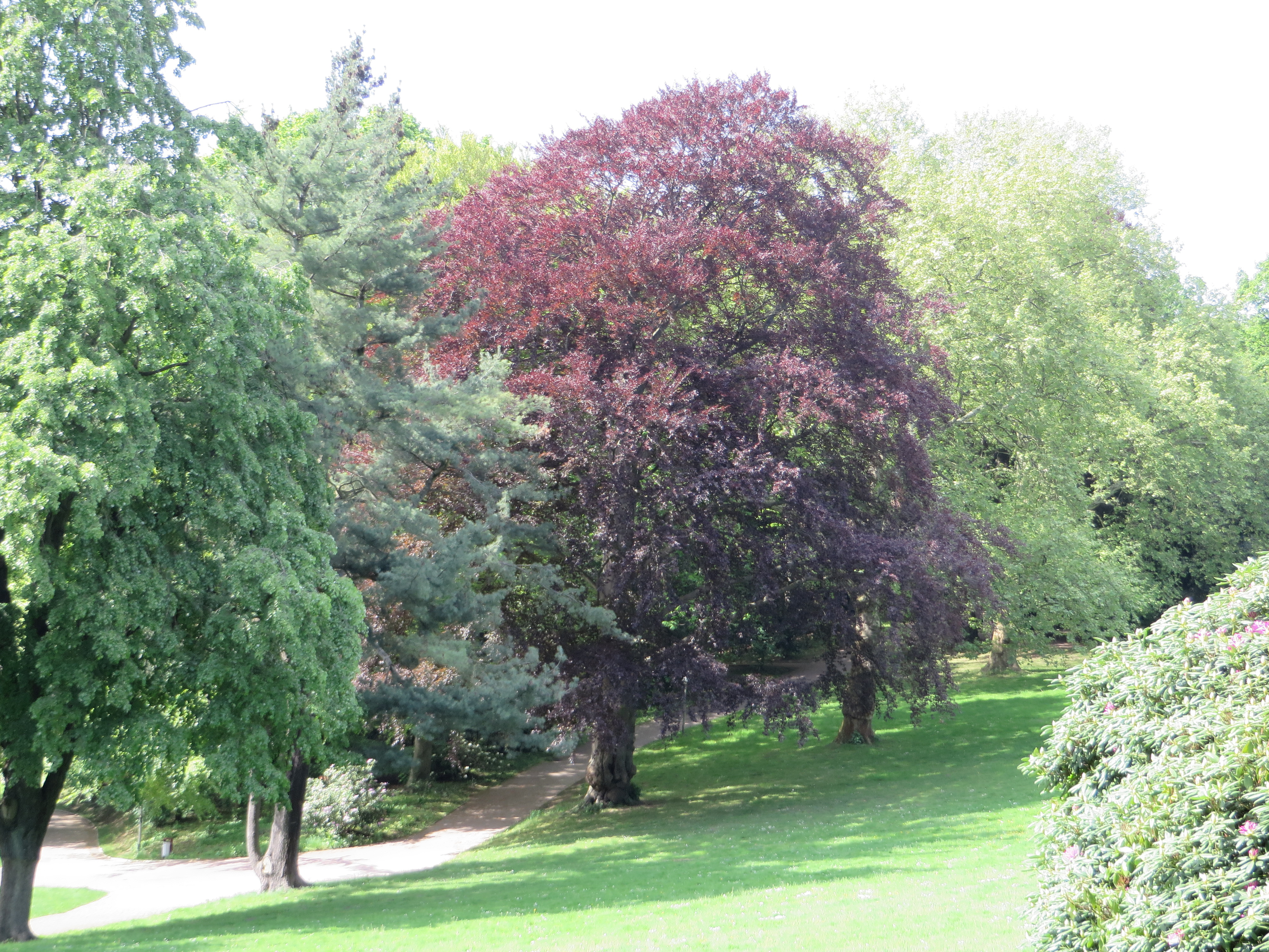 European beech in Witten, town park, natural monument 2.3.15